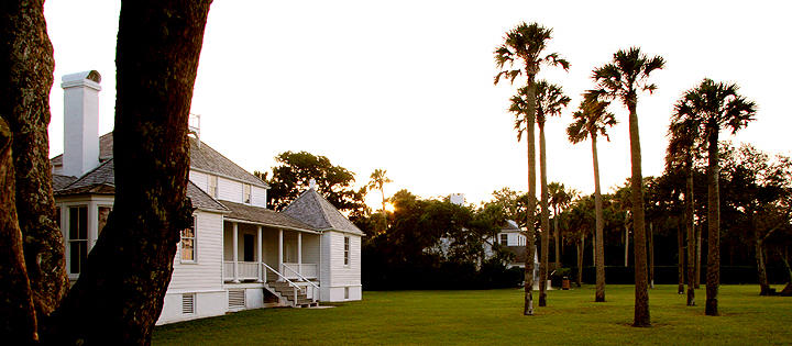 Kinglsey Plantation Sunset (Photo by Manuel Lebrón), a descendant of Zephaniah Kingsley and Anna Madgigine Jai's youngest son John Maxwell Kingsley